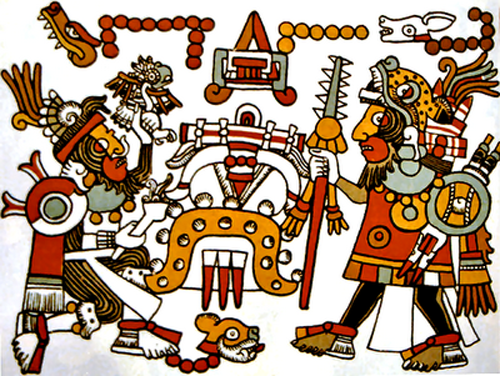 Paintings from the Aztec culture